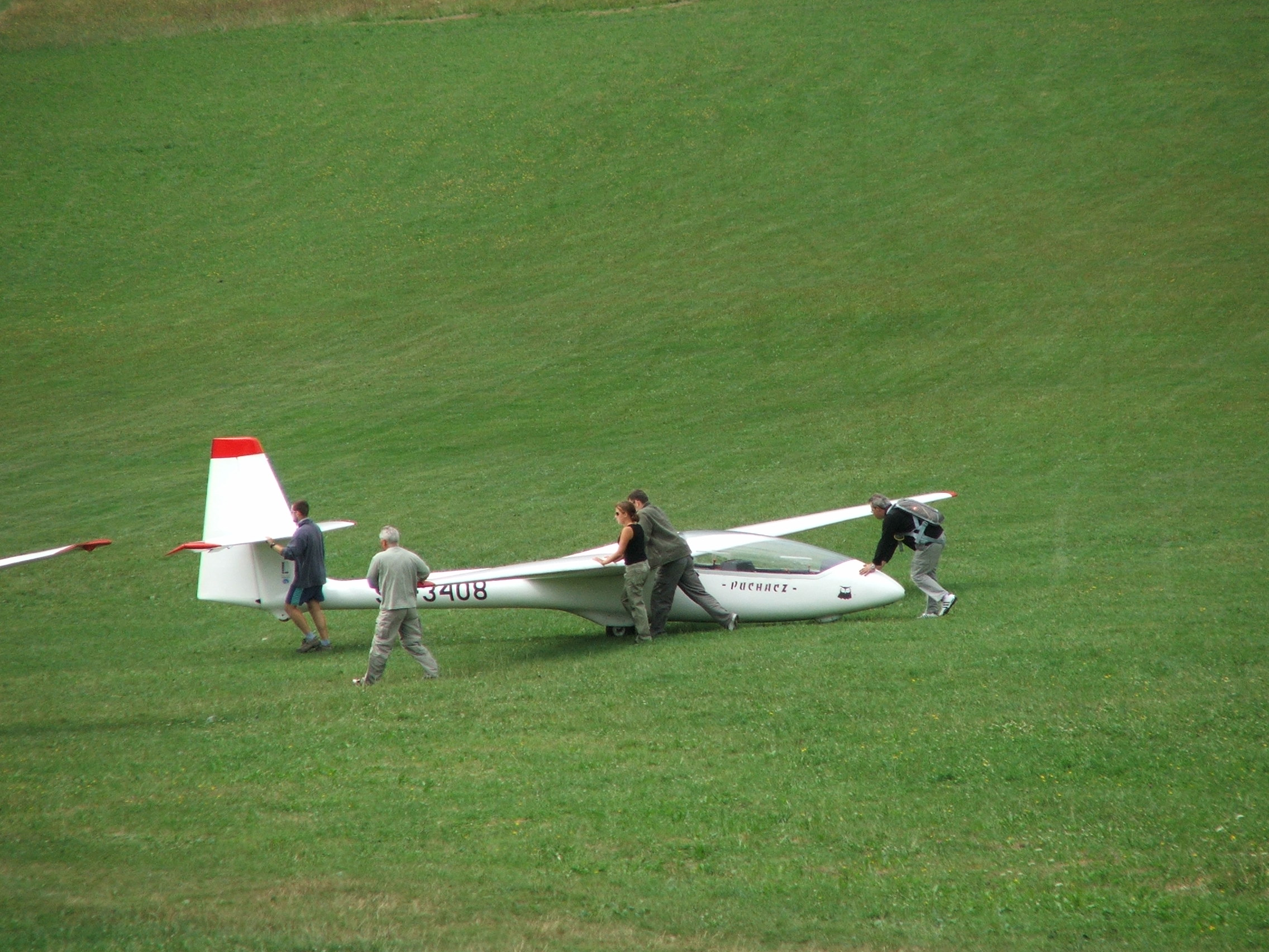 SZD-50-3 Puchacz glider